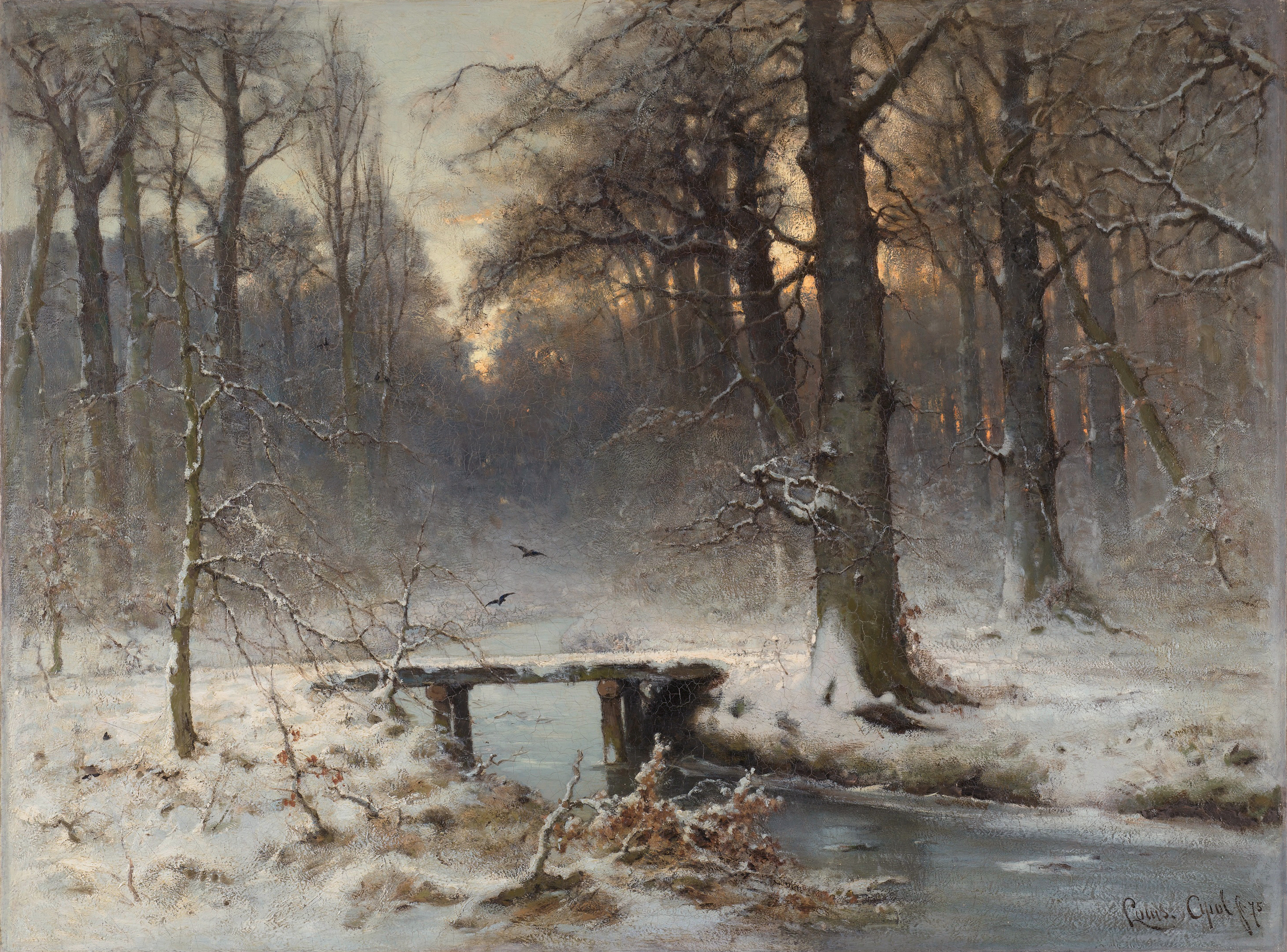 A January evening in the Haagse Bos